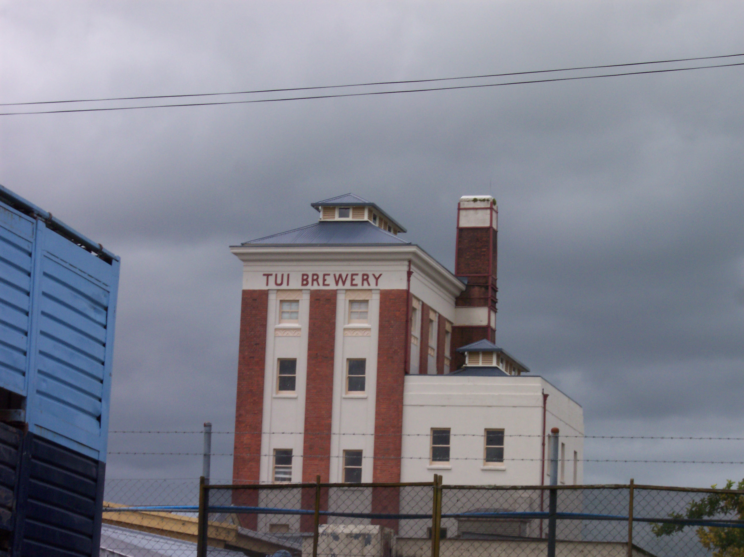 Tui Brewery Tower